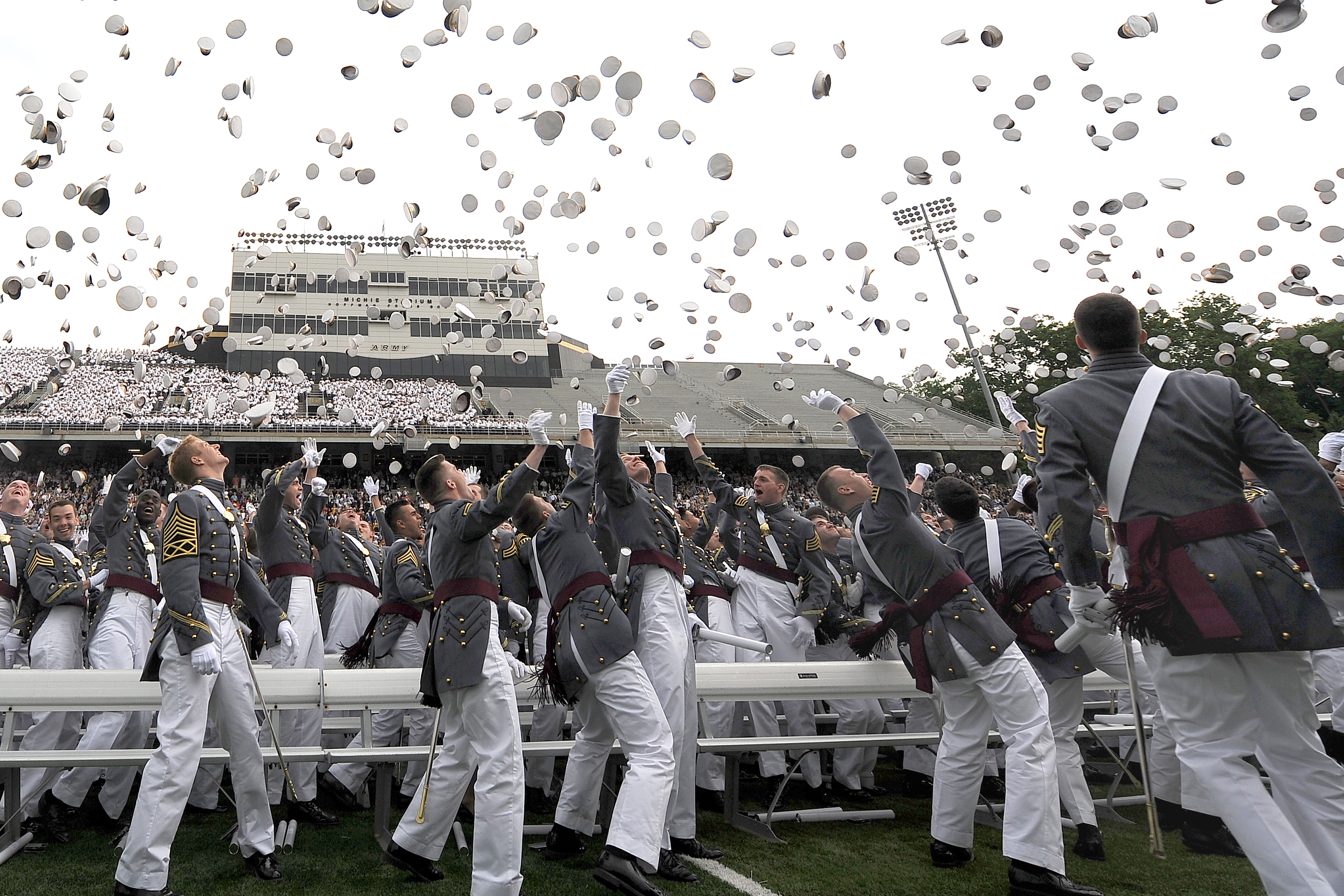 U.S. Military Academy graduates toss their hats during commencement ceremonies at West Point, N.Y., May 23, 2009. Of the 970 cadets, 144 are women, 63 African Americans, 62 Asian/Pacific Islanders, 74 Hispanics and 15 Native Americans. The majority of the class, which also includes 17 foreign students, were commissioned second lieutenants. Gates urges West Point graduates to become great leaders See more at Army.mil